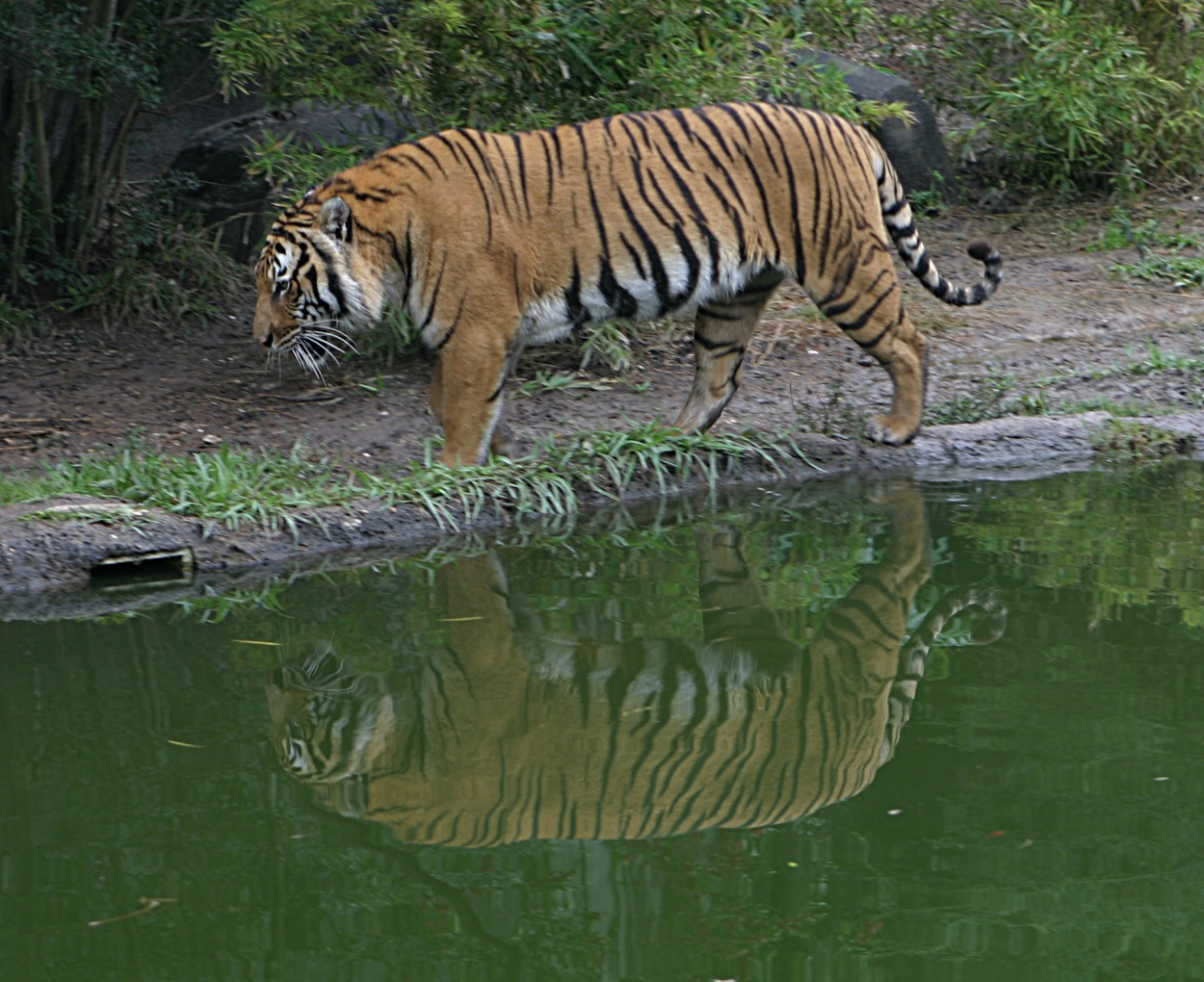 Indochinese Tiger at the Houston Zoo